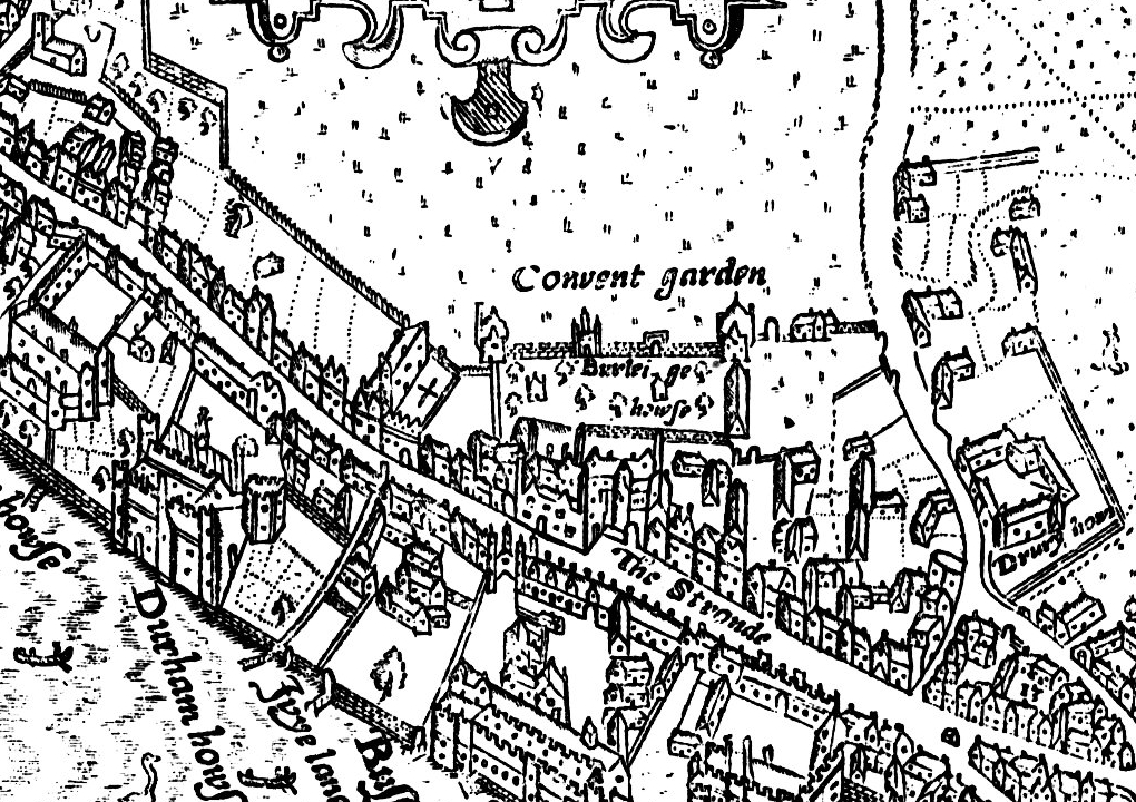 John Norden's Map of Westminster, 1593, engraved by Pieter Van den Keere. Original size 9.5 x 6.75 inches, published in Norden's "Middlesex", dated 1593. Norden was born c. 1548, and was made Surveyor of His Majesty's Woods in 1609.